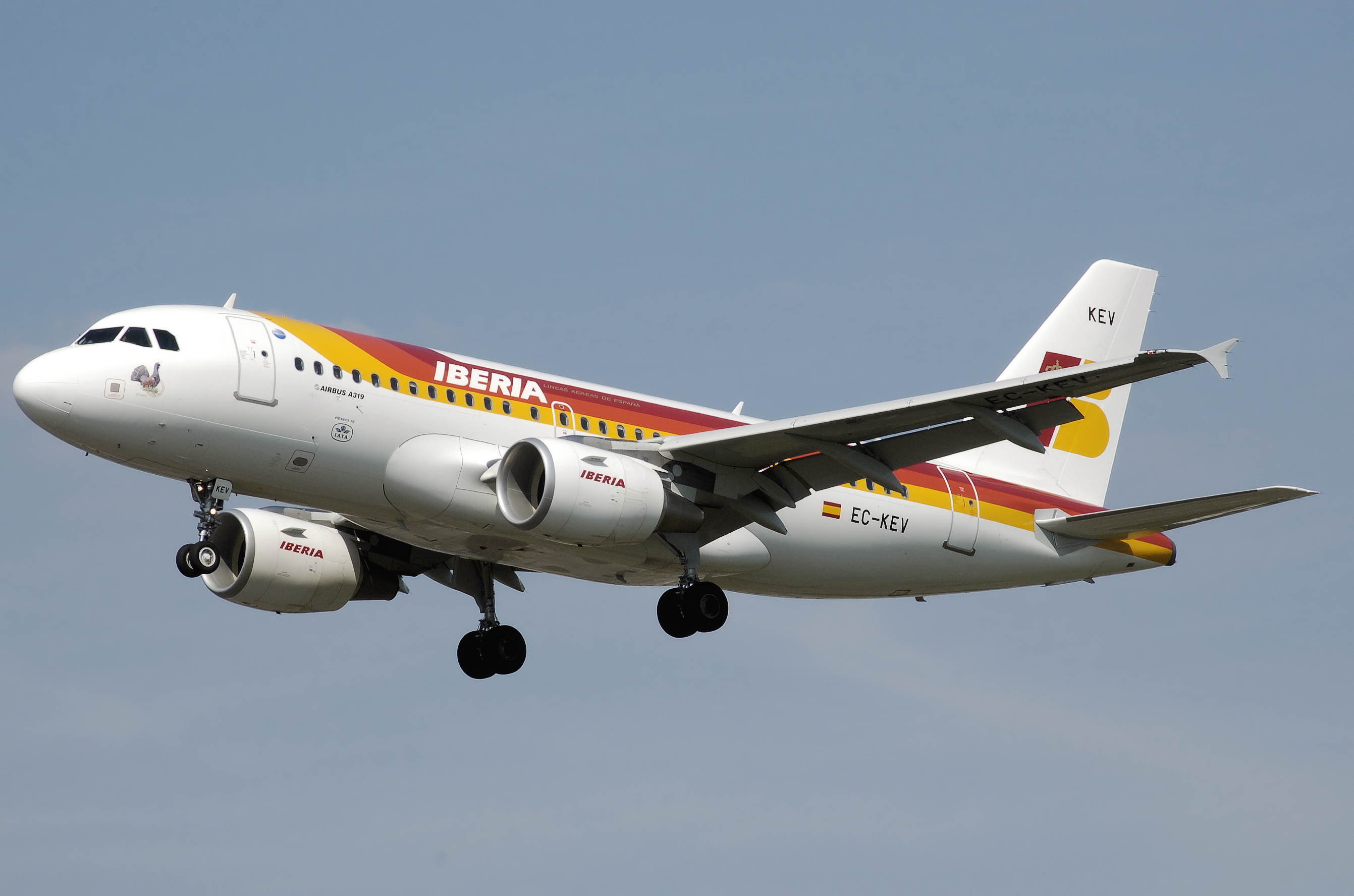 Iberia Airbus A319-100 (EC-KEV) landing at London Heathrow Airport.